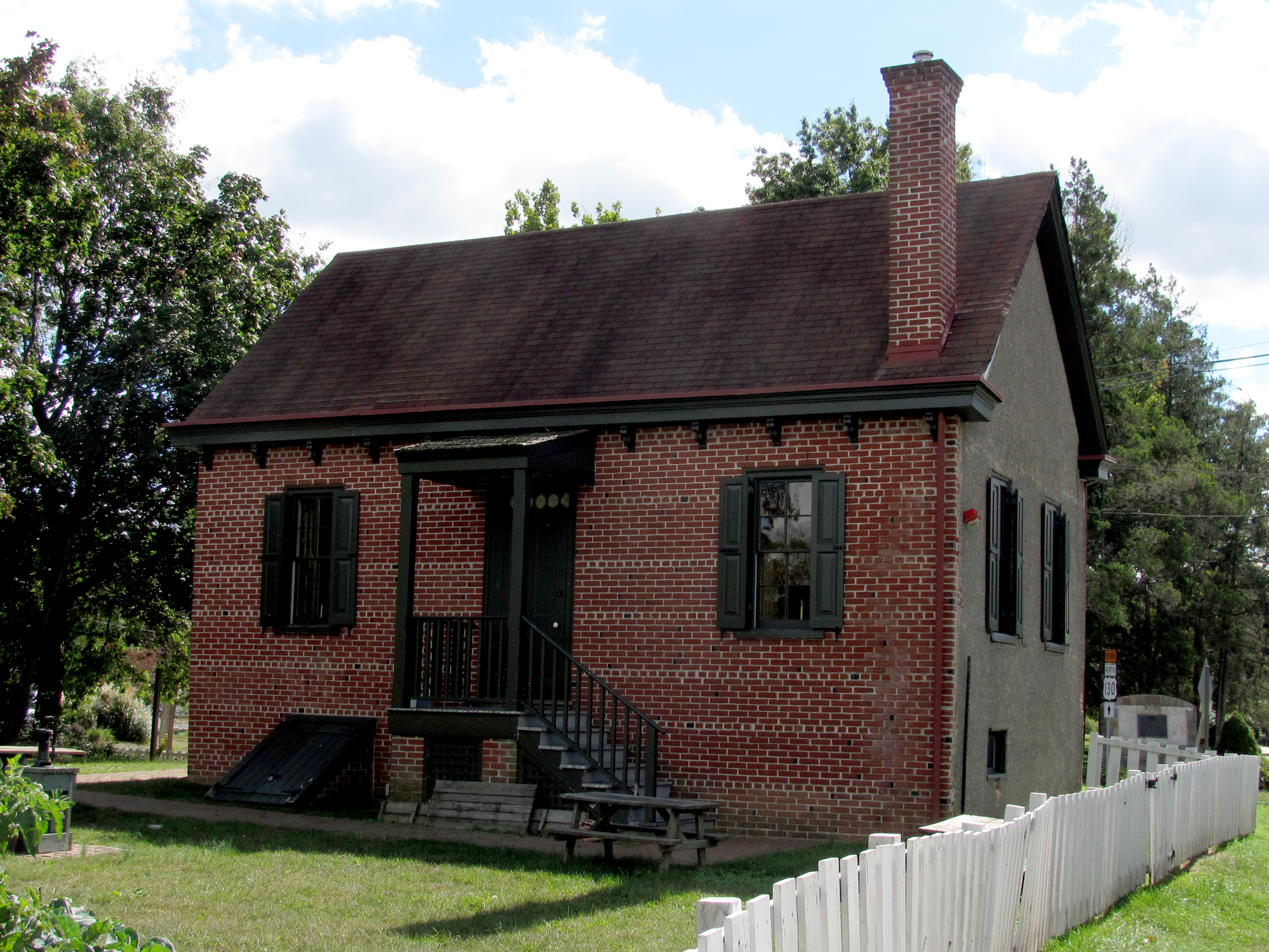 View of Newton Union Schoolhouse, Collings and Lynne Aves., Haddon Township, Camden County, New Jersey, looking southeast from Lynne Avenue.